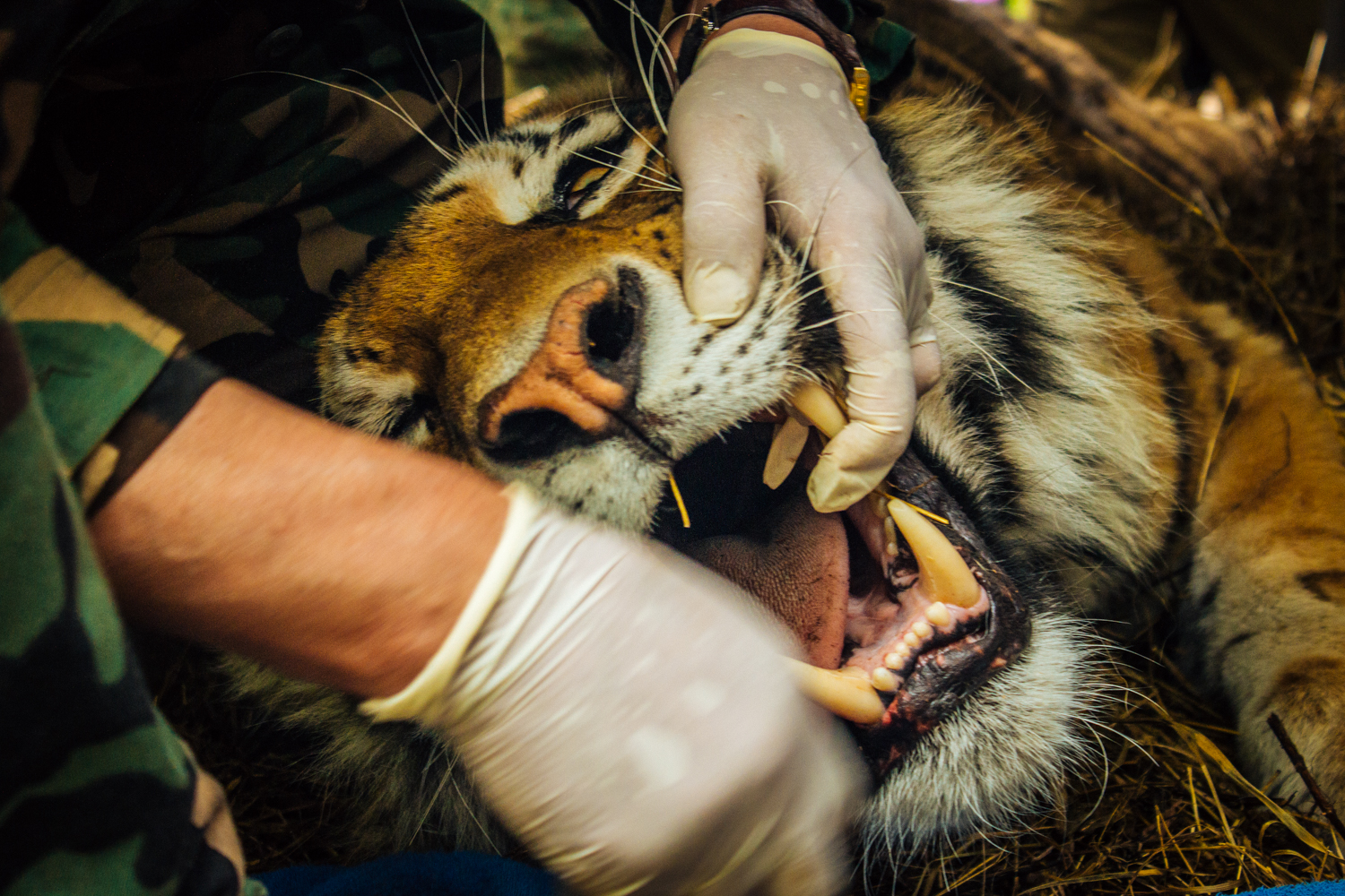 Upornyj (tiger)